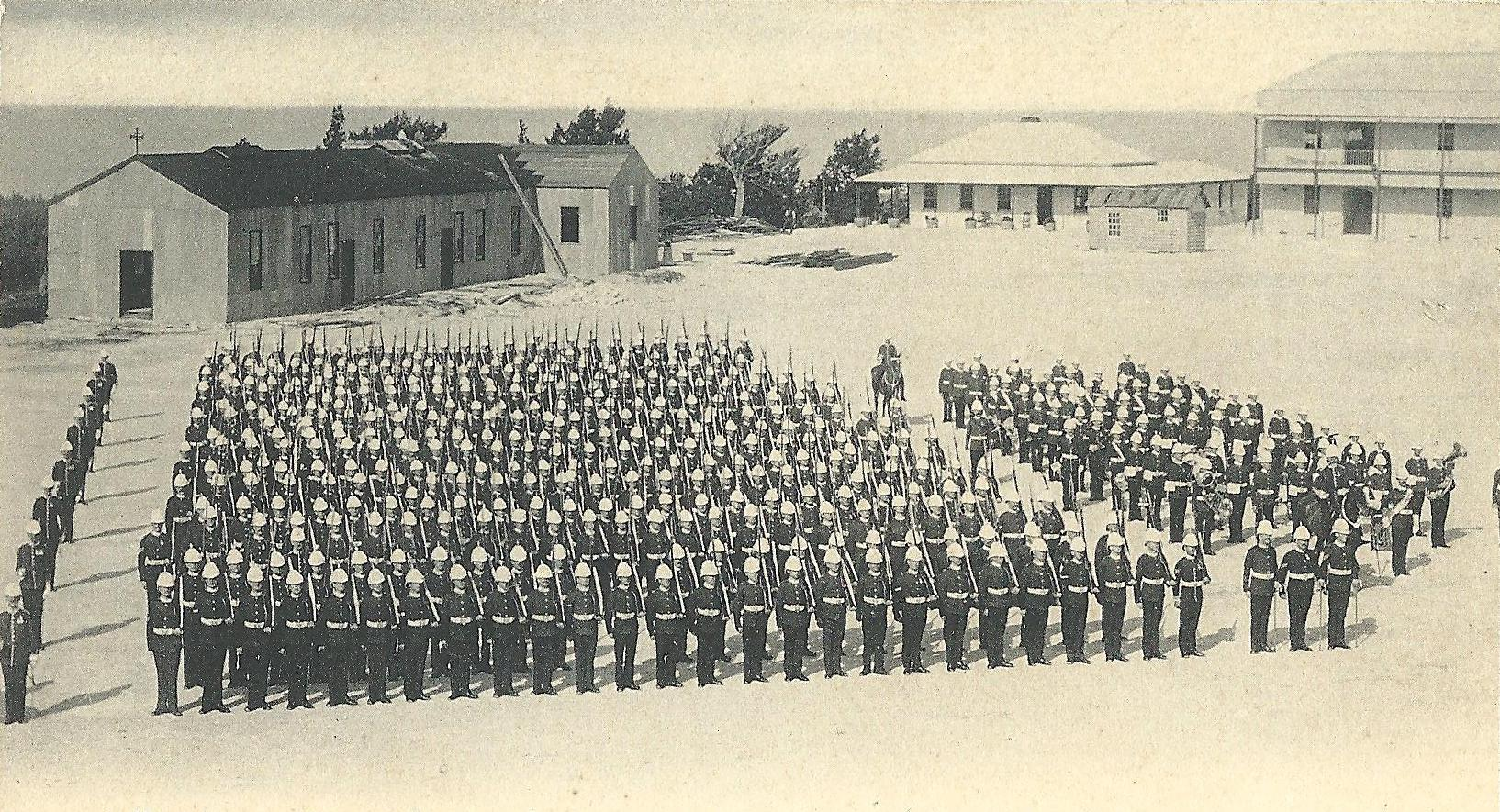 The Third Battalion of the Royal Warwickshire Regiment, an English infantry regiment of the British Army, on parade in Prospect Camp, in Devonshire, Bermuda. Undated, but between 1902 and 1904. The red tunics of the line infantry (or foot) were withdrawn from general issue in 1914.